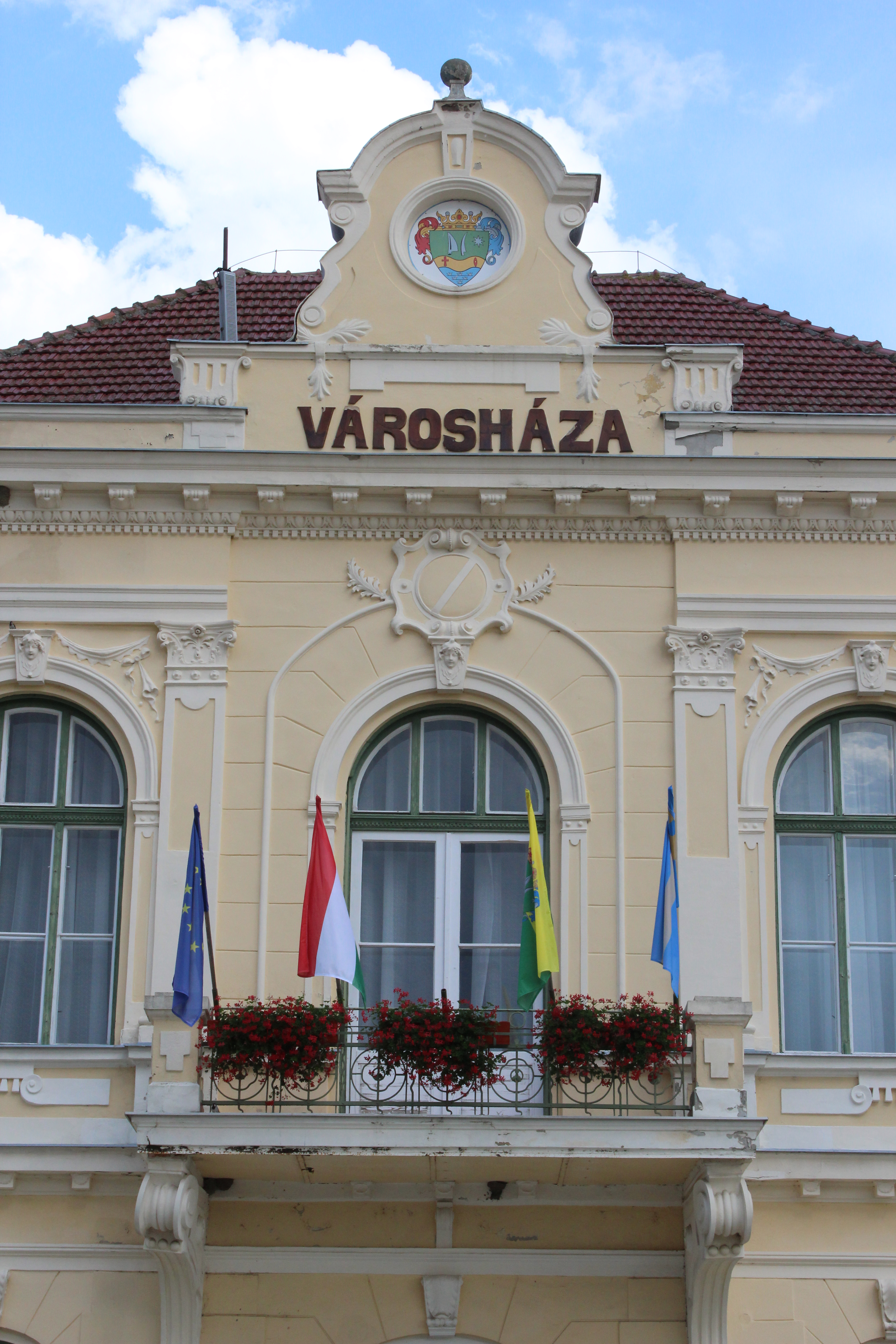 Detail of Town Hall(Vésztő, Hungary).